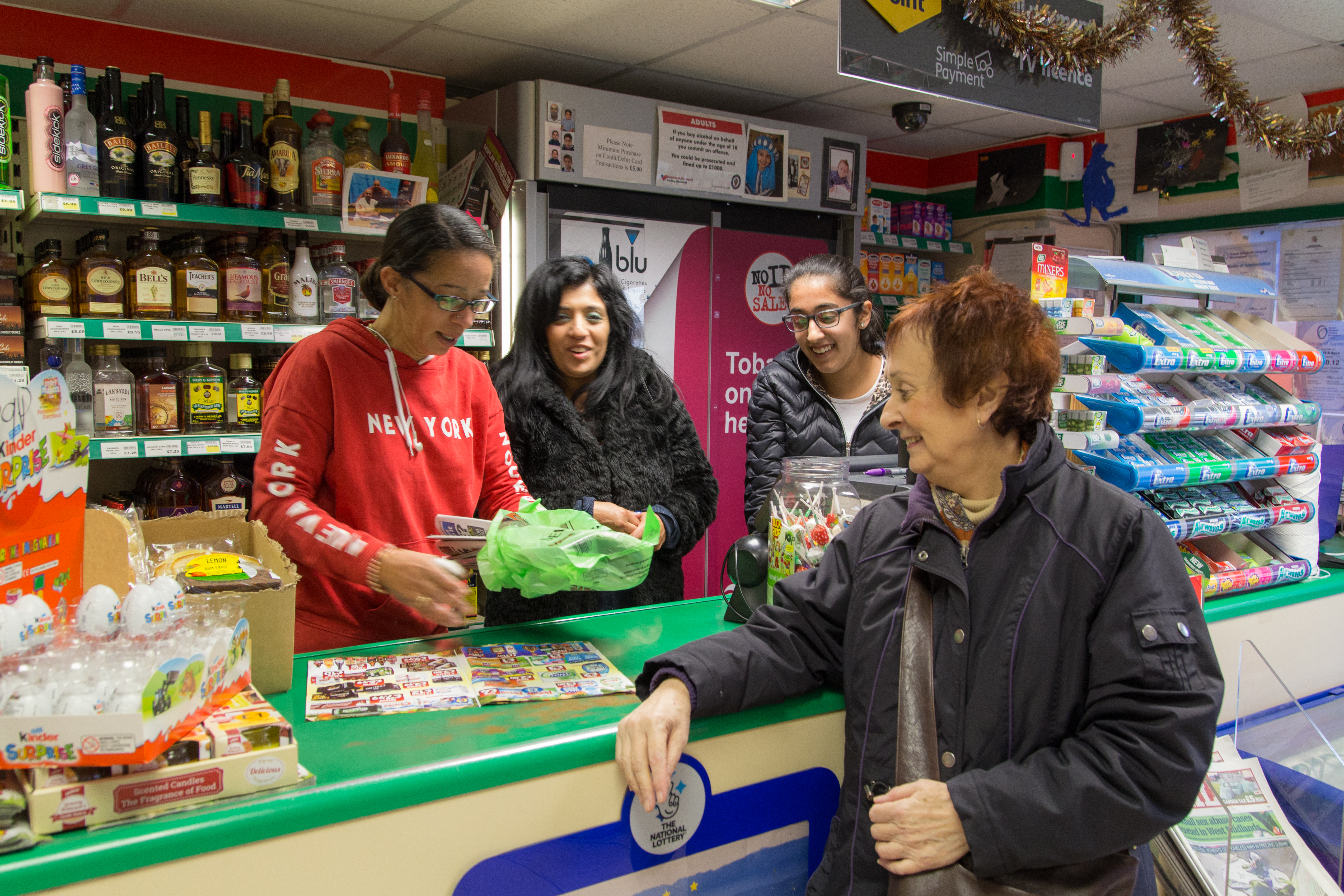 Cllr Mary Locke buying newspapers at Select & Select shop on Masefield estate in Birmingham on Small Business Saturday UK 2016